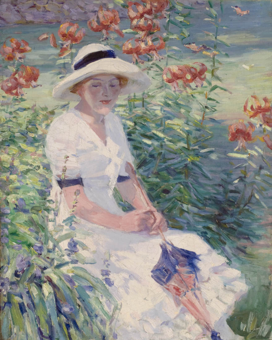 Lady with Parasol, a painting by American artist Catherine Wiley (1879–1958)